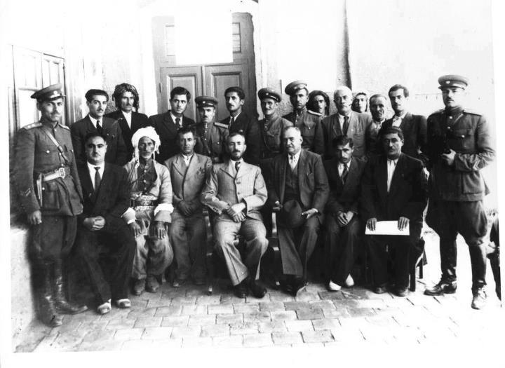 Kurdish Mahabad Republic president Ghazi Muhammad in the middle